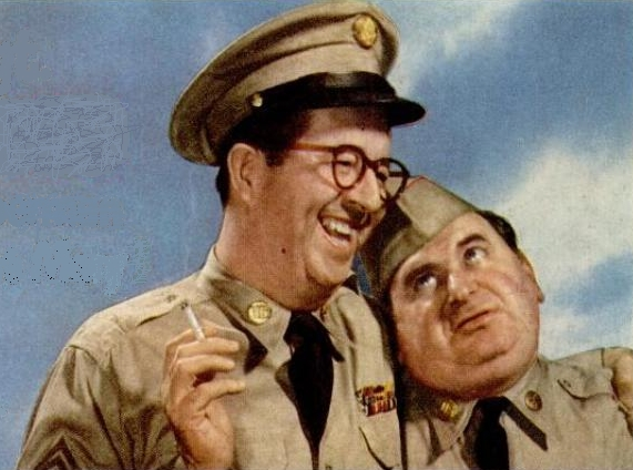 Life magazine ad for Camel cigarettes featuring Phil Silvers (Sgt. Bilko) and Maurice Gosfield (Pvt. Doberman), 1956. Photo from ad.